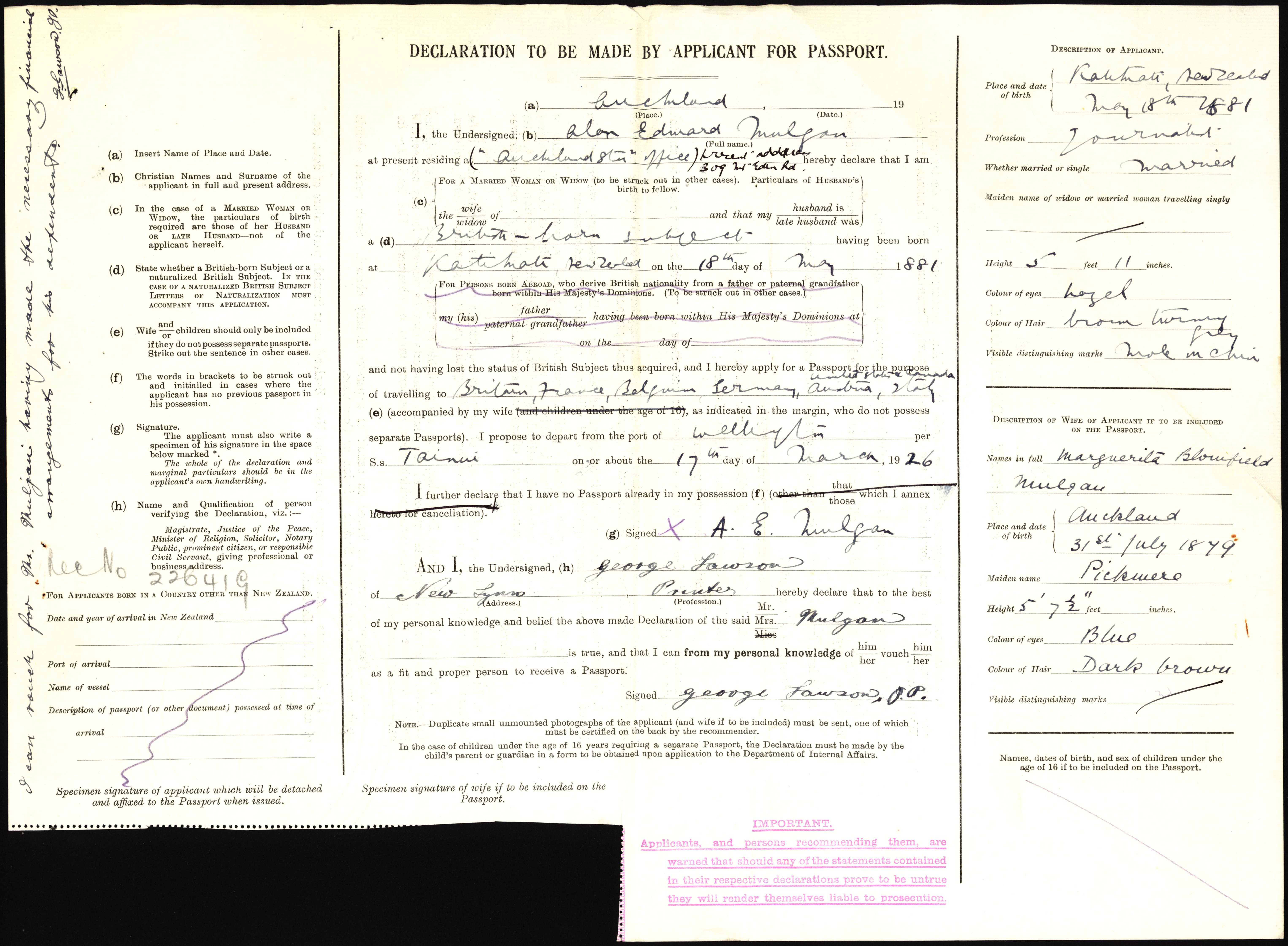 Archives New Zealand Reference: ACGO 8333 IA1 1350 / 15/11/24370